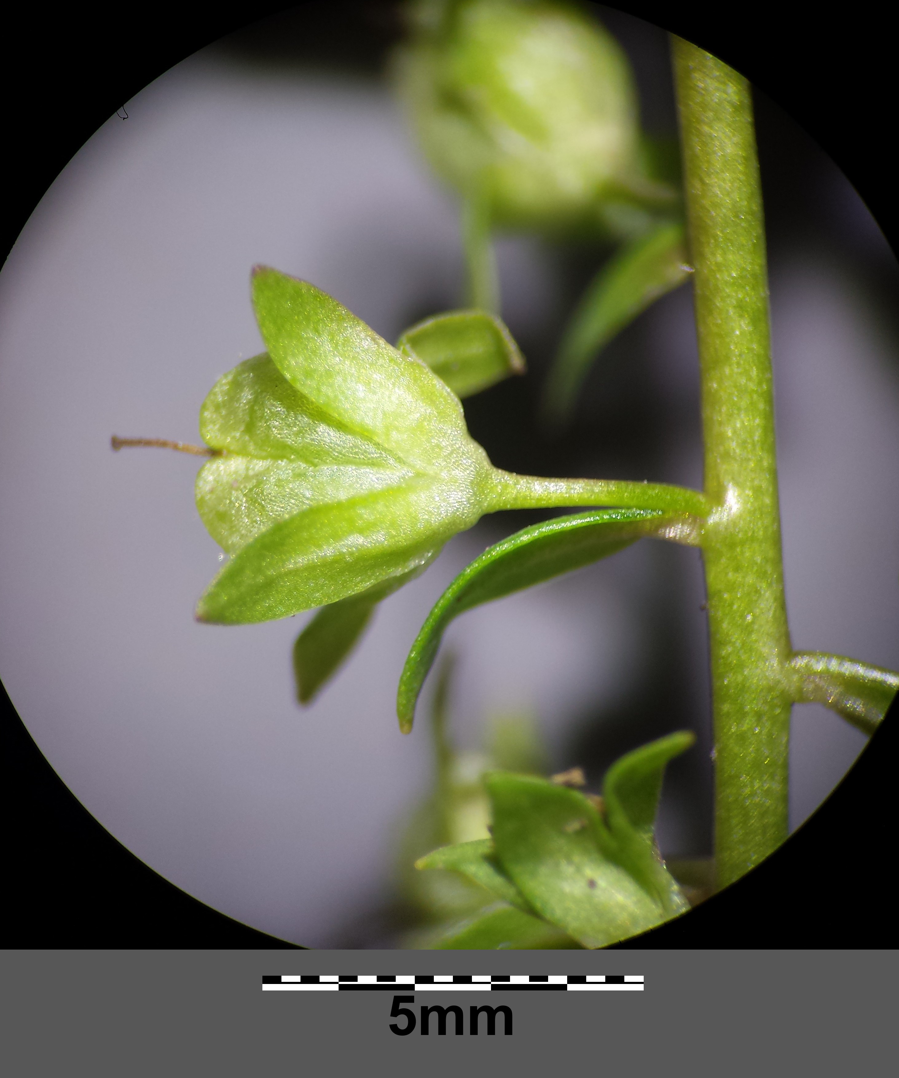 Infructescence Taxonym: Veronica catenata ss Fischer et al. EfÖLS 2008 ISBN 978-3-85474-187-9 Location: pond near Goldenes Bründl, Rohrwald, district Korneuburg, Lower Austria - ca. 225 m a.s.l. Habitat: shore of a pond